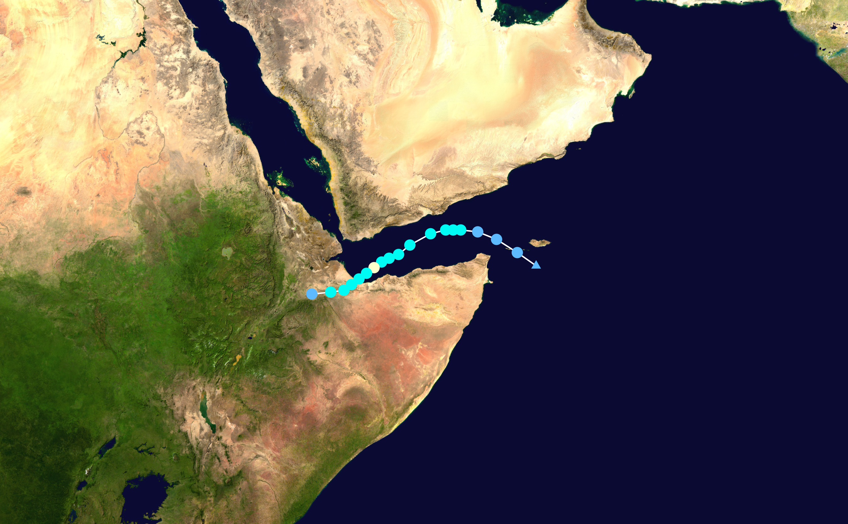 Track map of Cyclonic Storm Sagar of the 2018 North Indian Ocean cyclone season. The points show the location of the storm at 6-hour intervals. The colour represents the storm's maximum sustained wind speeds as classified in the Saffir–Simpson scale (see below), and the shape of the data points represent the nature of the storm, according to the legend below. Saffir–Simpson scale Tropical depression≤38 mph≤62 km/h Category 3111–129 mph178–208 km/h Tropical storm39–73 mph63–118 km/h Category 4130–156 mph209–251 km/h Category 174–95 mph119–153 km/h Category 5≥157 mph≥252 km/h Category 296–110 mph154–177 km/h Unknown Storm type Tropical cyclone Subtropical cyclone Extratropical cyclone / Remnant low / Tropical disturbance / Monsoon depression